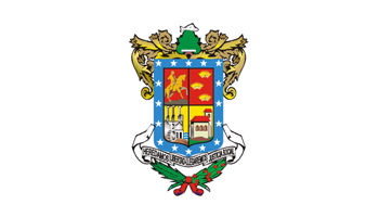 Flag of the State of Michoacán, Mexico.